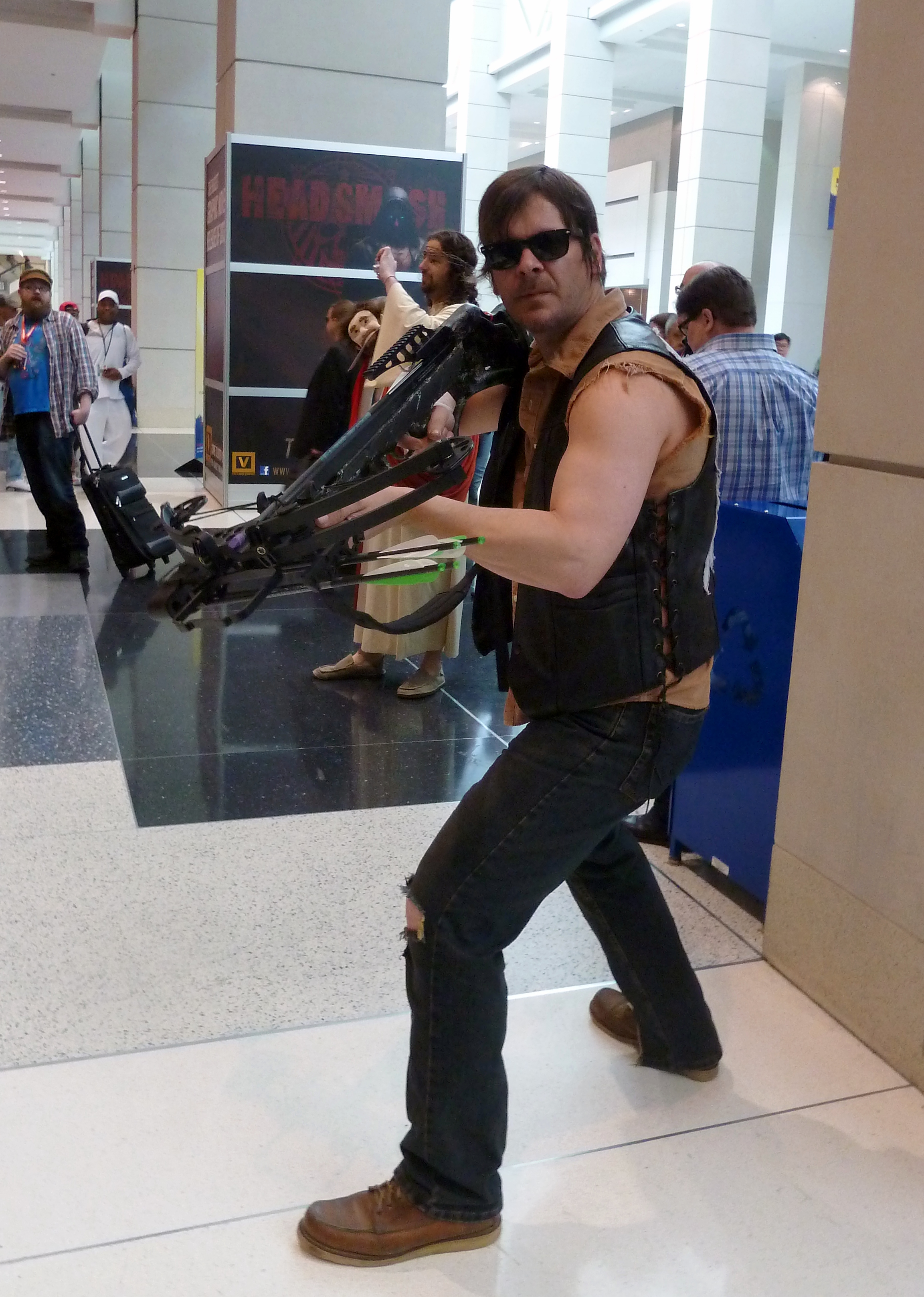 Daryl Dixon of Walking Dead Cosplay at the 2013 Chicago Comic & Entertainment Expo (C2E2).